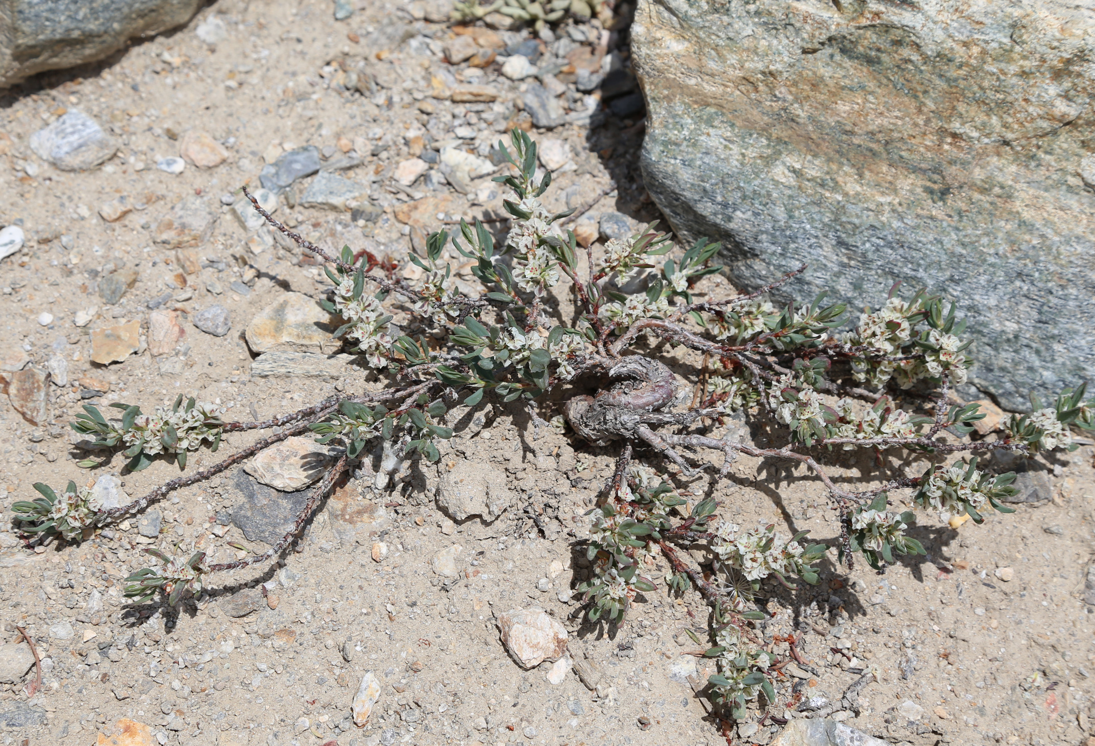 Shasta knotweed (Polygonum shastense), an old plant with a large woody base and white flowers. At 10,380ft along trail between Saddlebag and Steelhead Lakes in 20-Lakes Basin, Hoover Wilderness, Sierra Nevada mountains, California USA.